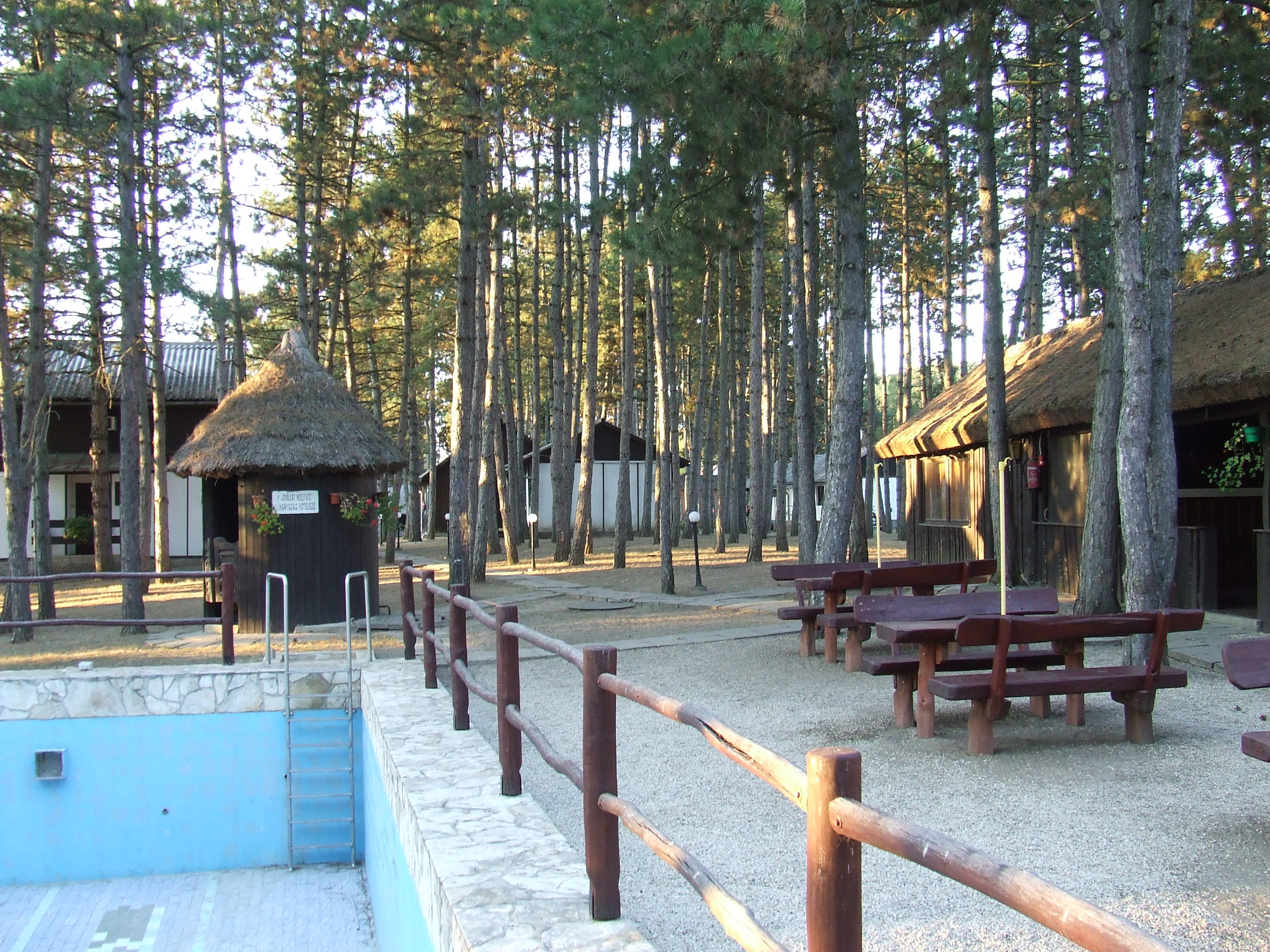 Isaszeg, Hungary, fishing and rest park.